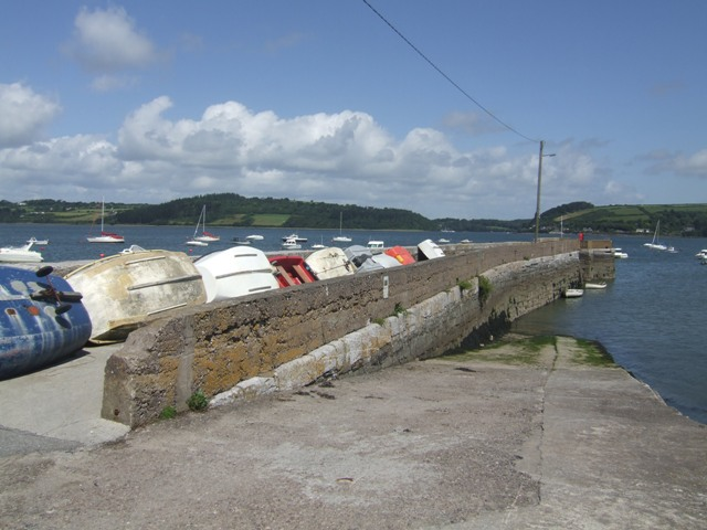 Lower Aghada Pier, near to Farsid, Aghada, Rostellan and an Geata Ban, Cork, Ireland. The pier was built in the years following the great famine of the 1840s. From 1850 steamboats operated in Cork Harbour between Aghada, Queenstown (Cobh), Passage West and Cork. The trade disappeared in the 1930s as road transport improved.